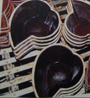 making Hao Kuih